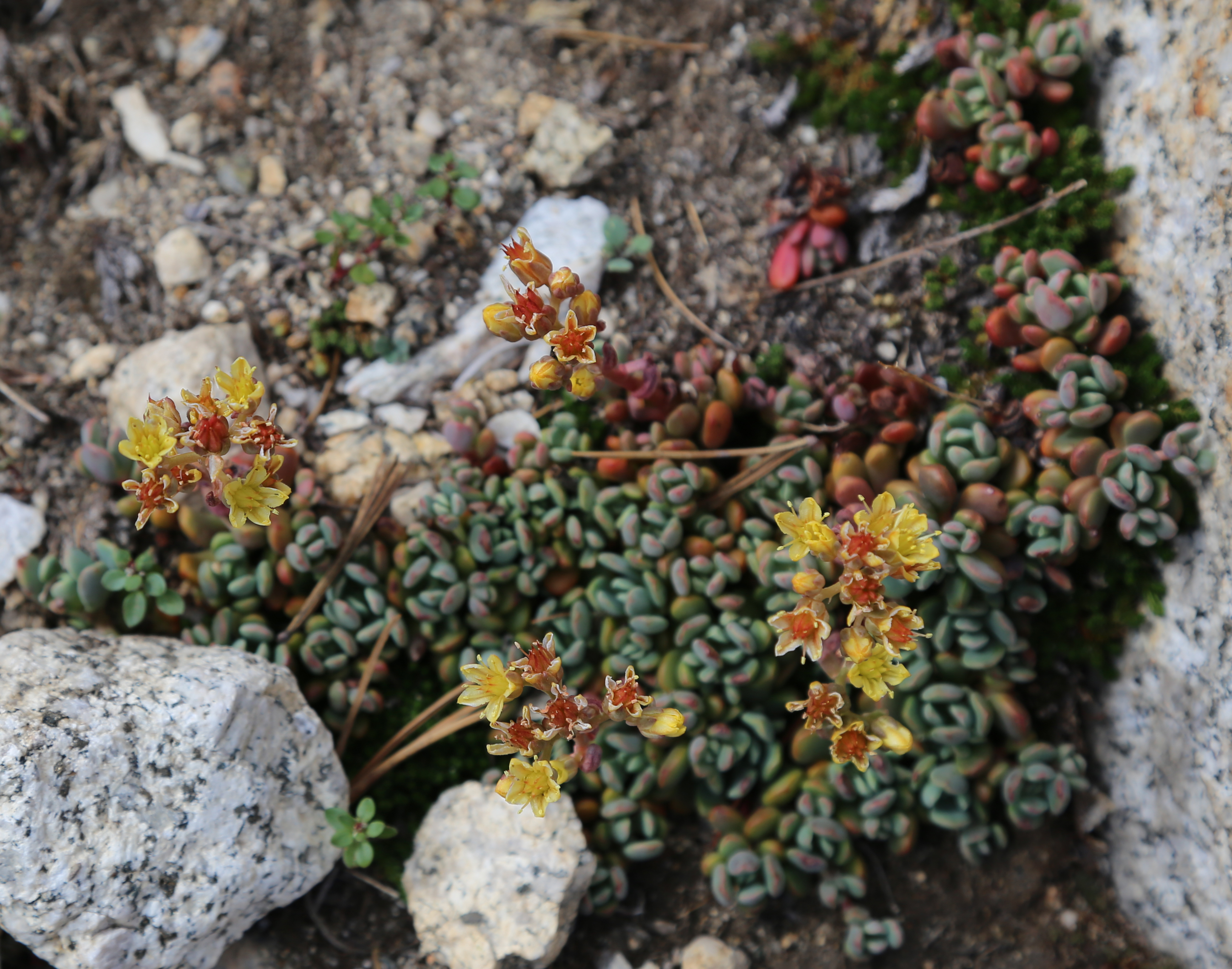 Stonecrop (Sedum obtusatum) flowers and succulent leaves. On granite below Conness Lakes, Hoover Wilderness, Sierra Nevada mountains, California USA.